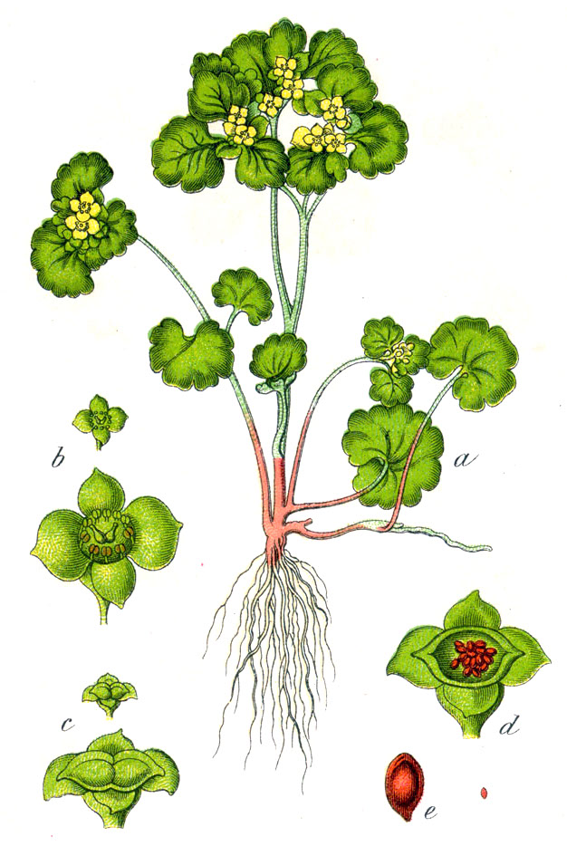 Chrysosplenium oppositifolium L. Original Caption Paarblättriges Goldmilzkraut, Chrysosplenium oppositifolium